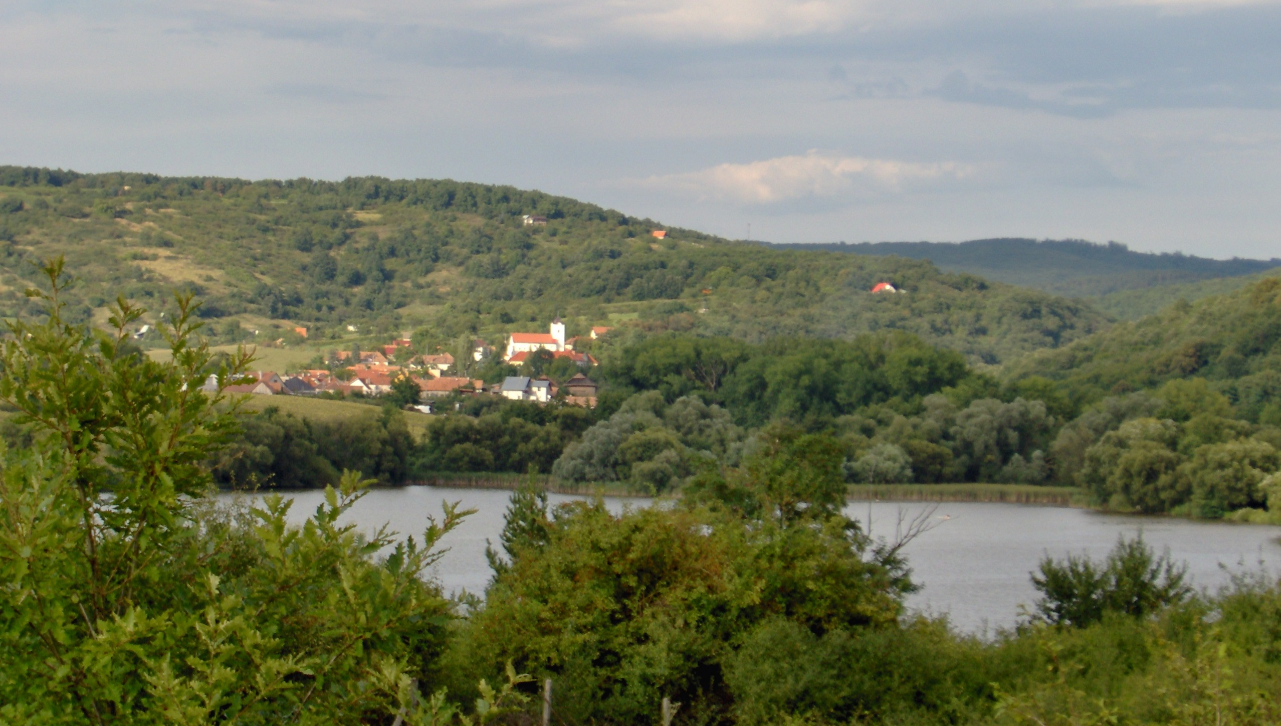 Bátovce, reservoir